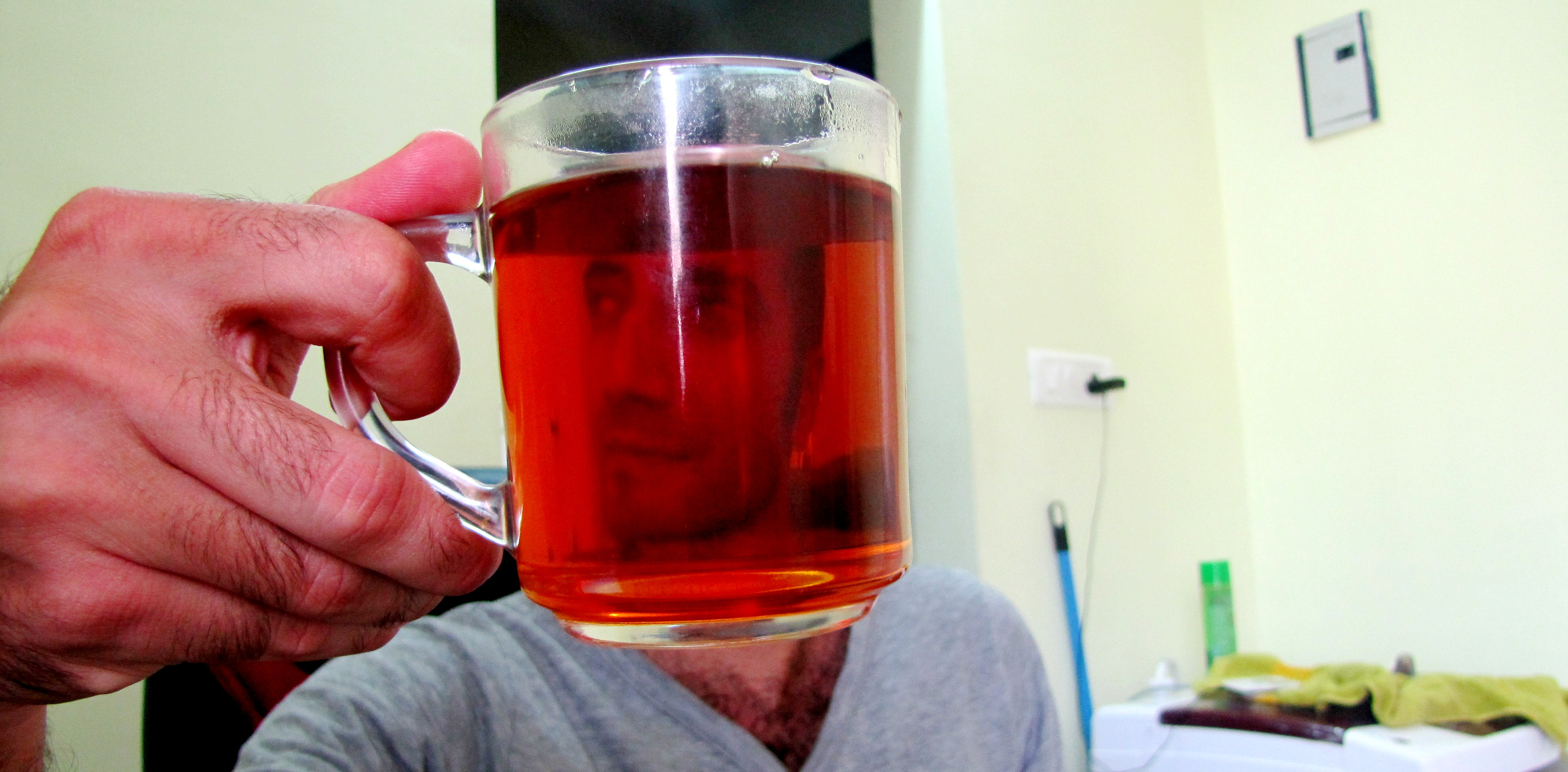 While my friend was having one cup of tea, I asked him to put his head in that tea for posing for a crazy shot. We were in his home at J.P.Nagar, Bangalore, India.